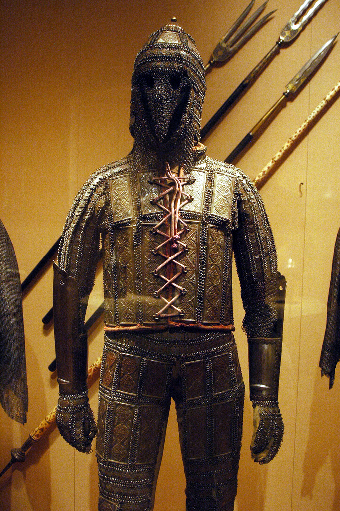 Antique suit of plated mail, Met museum.